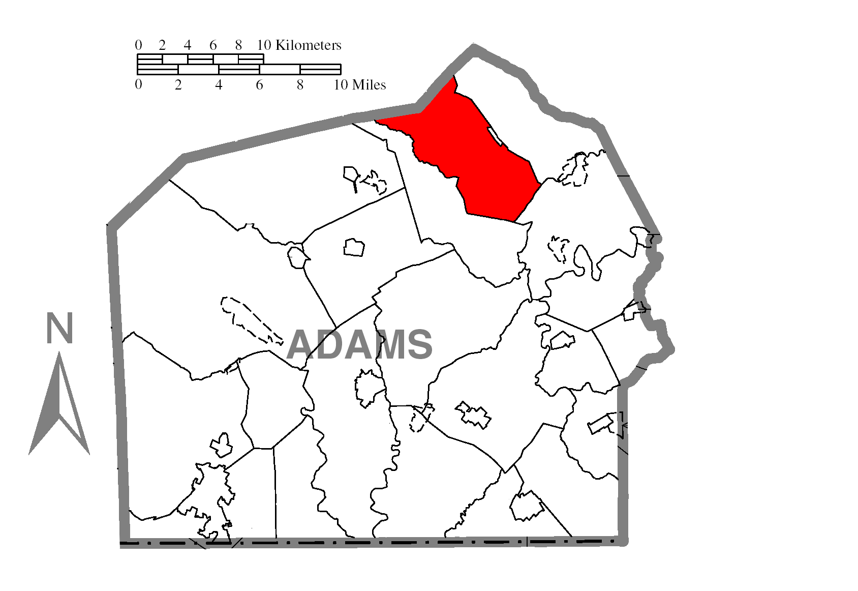 A map of Adams County showing Huntington Township, Pennsylvania (alternate) highlighted on the map.